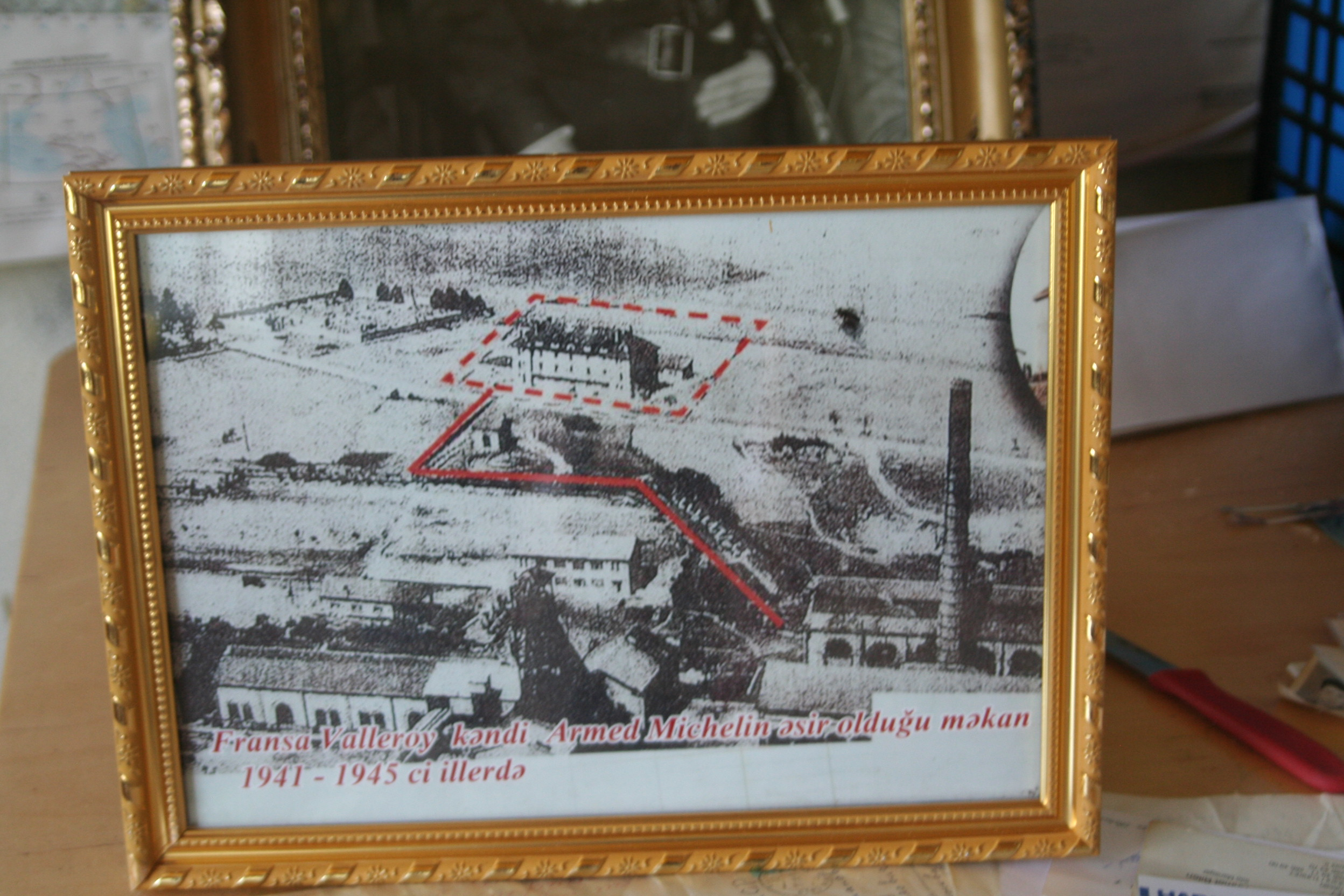 Photo of Valleroy concentration camp in House-museum of Ahmadiyya Jabrayilov (Shaki, Azerbaijan). Jabrayilov was in this camp as a prisoner.